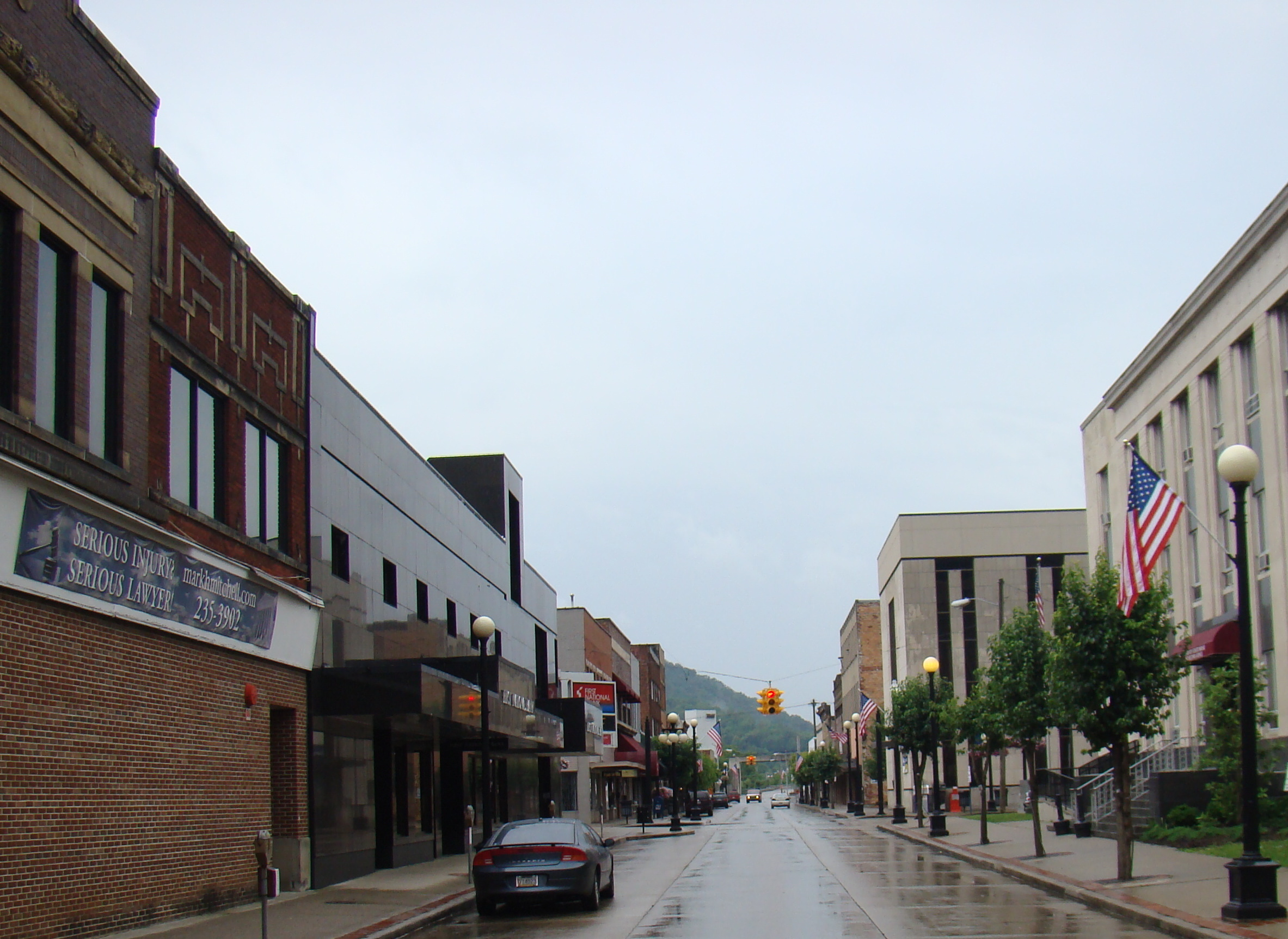 View down East 2nd Avenue in the downtown commercial area of Williamson, West Virginia.